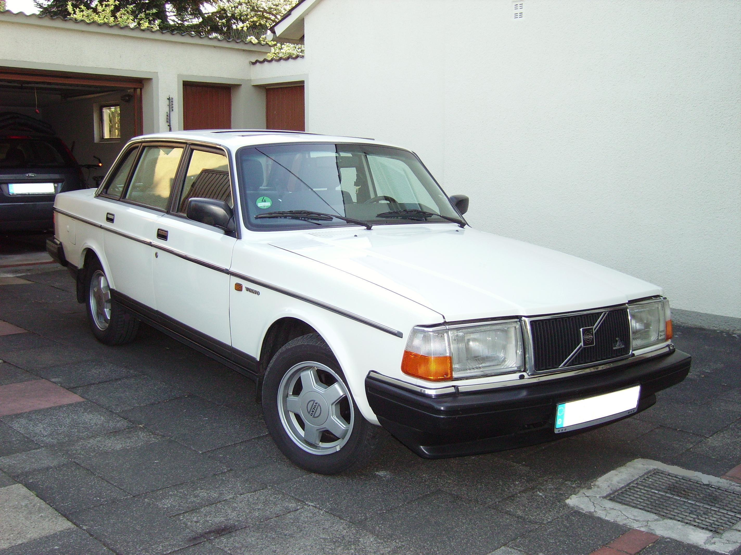 Volvo 240 -1989- front